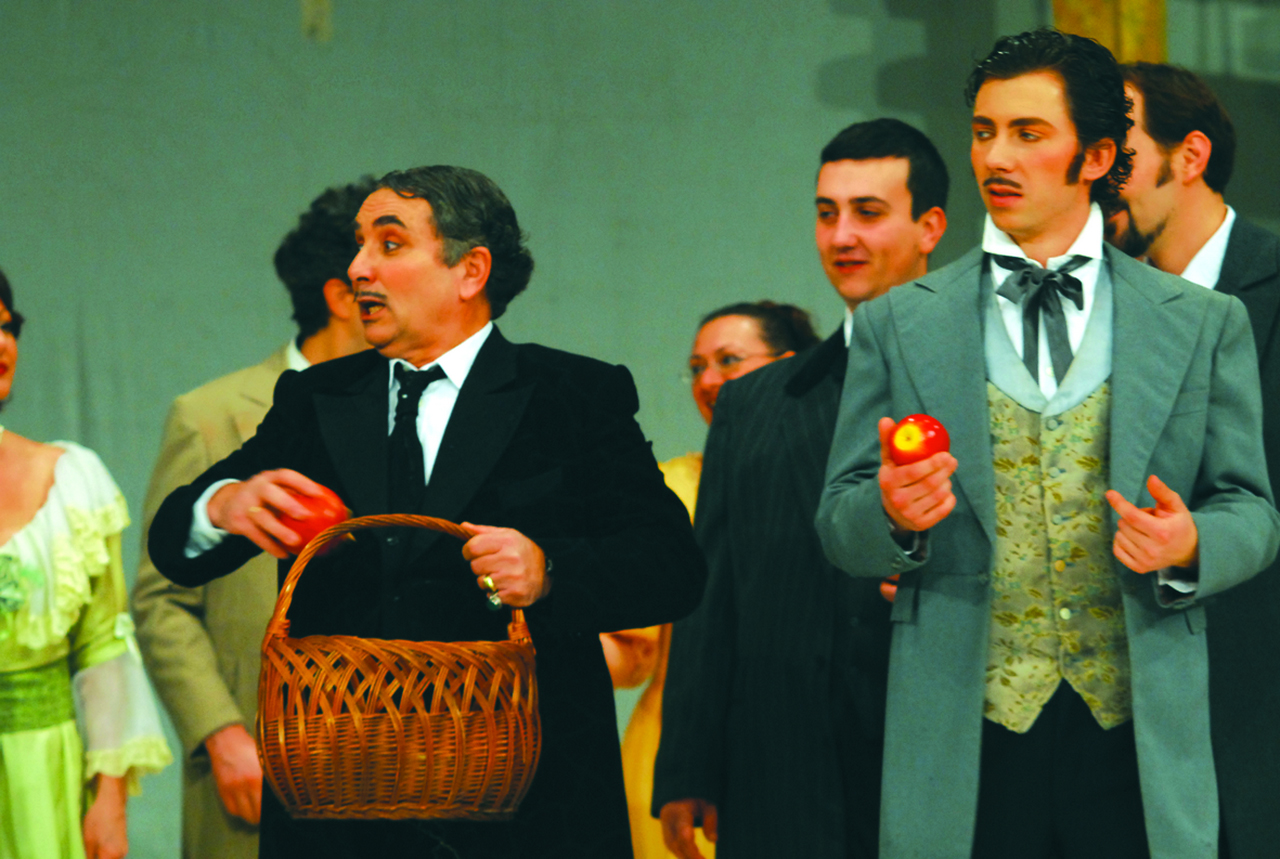 "Das Apfelfest", Оperetta, SNT, Slavoljub Kocić, Branislav Cvijić, Novi Sad, 2006/07 Srpski (latinica): "Jabuka", opereta Johana Štrausa, Slavoljub Kocić, tenor, Branislav Cvijić, tenor, SNP, Novi Sad, 2006/07. Српски (ћирилица): "Јабука", оперета Јохана Штрауса, Славољуб Коцић, тенор, Бранислав Цвијић, тенор, СНП, Нови Сад, 2006/07.